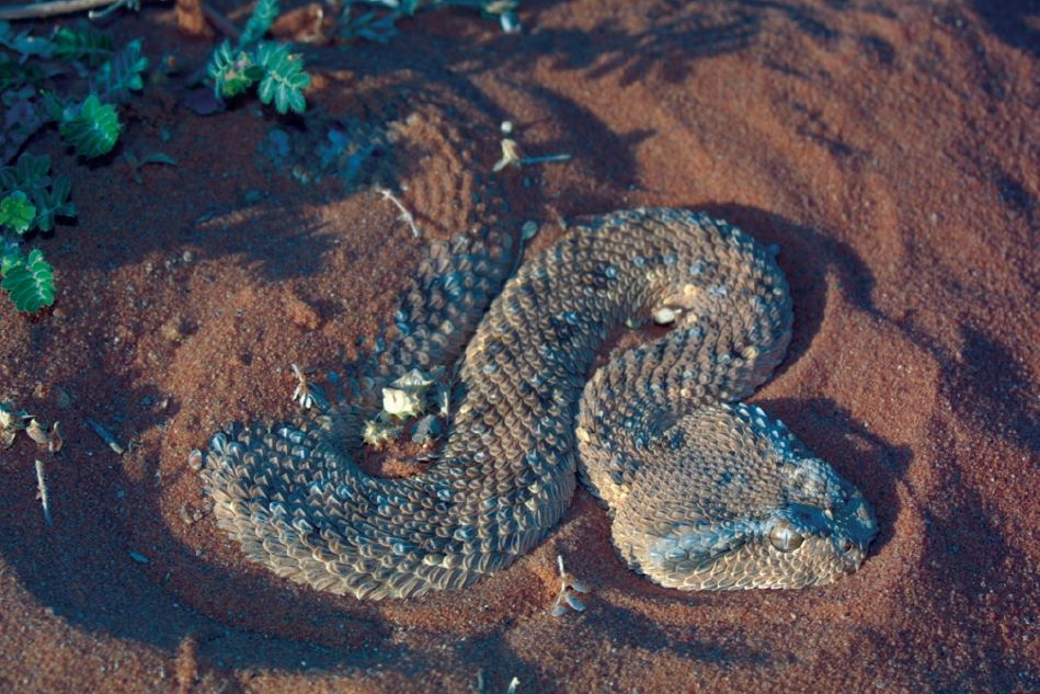 Cerastes gasperettii (hornless).